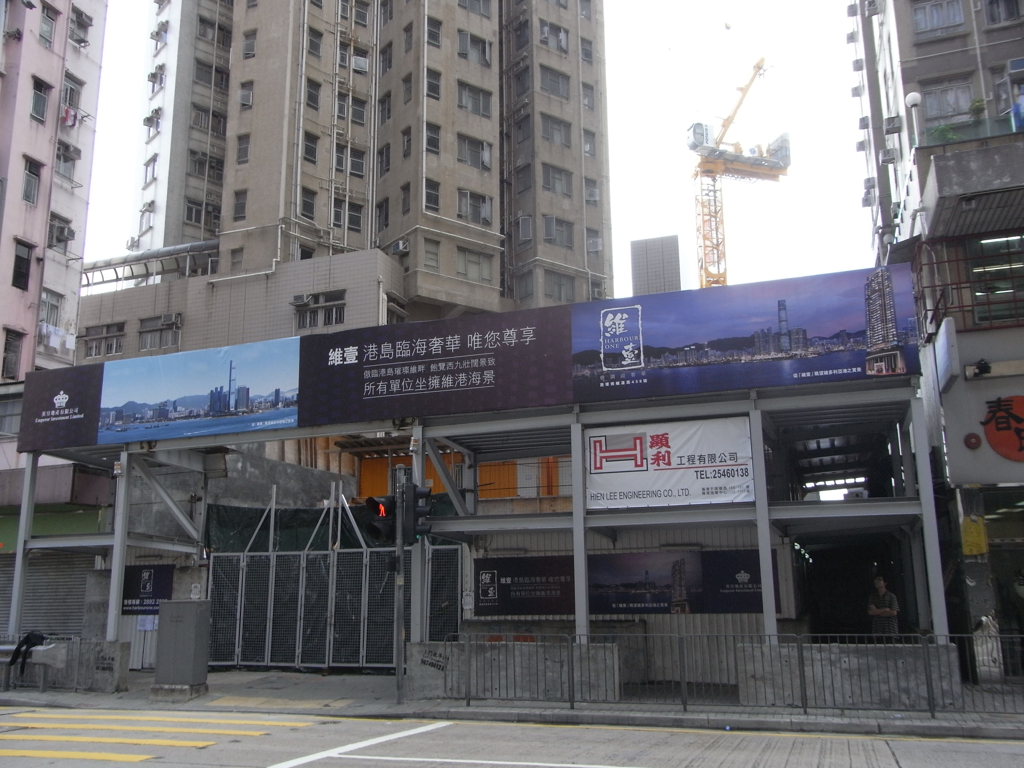 西環 維壹 皇后大道西